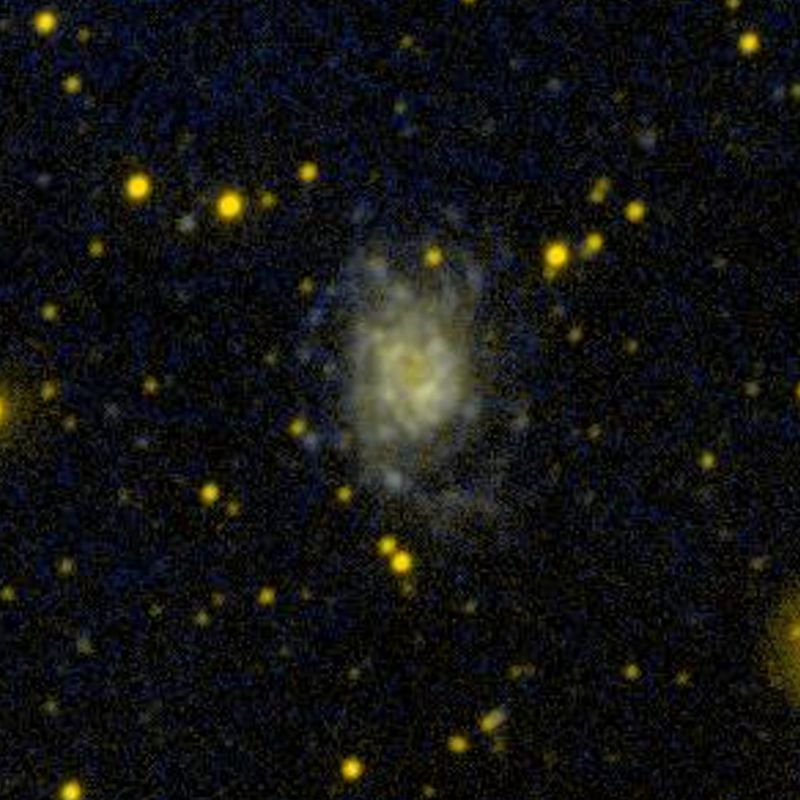 NGC 3120 galaxy by GALEX